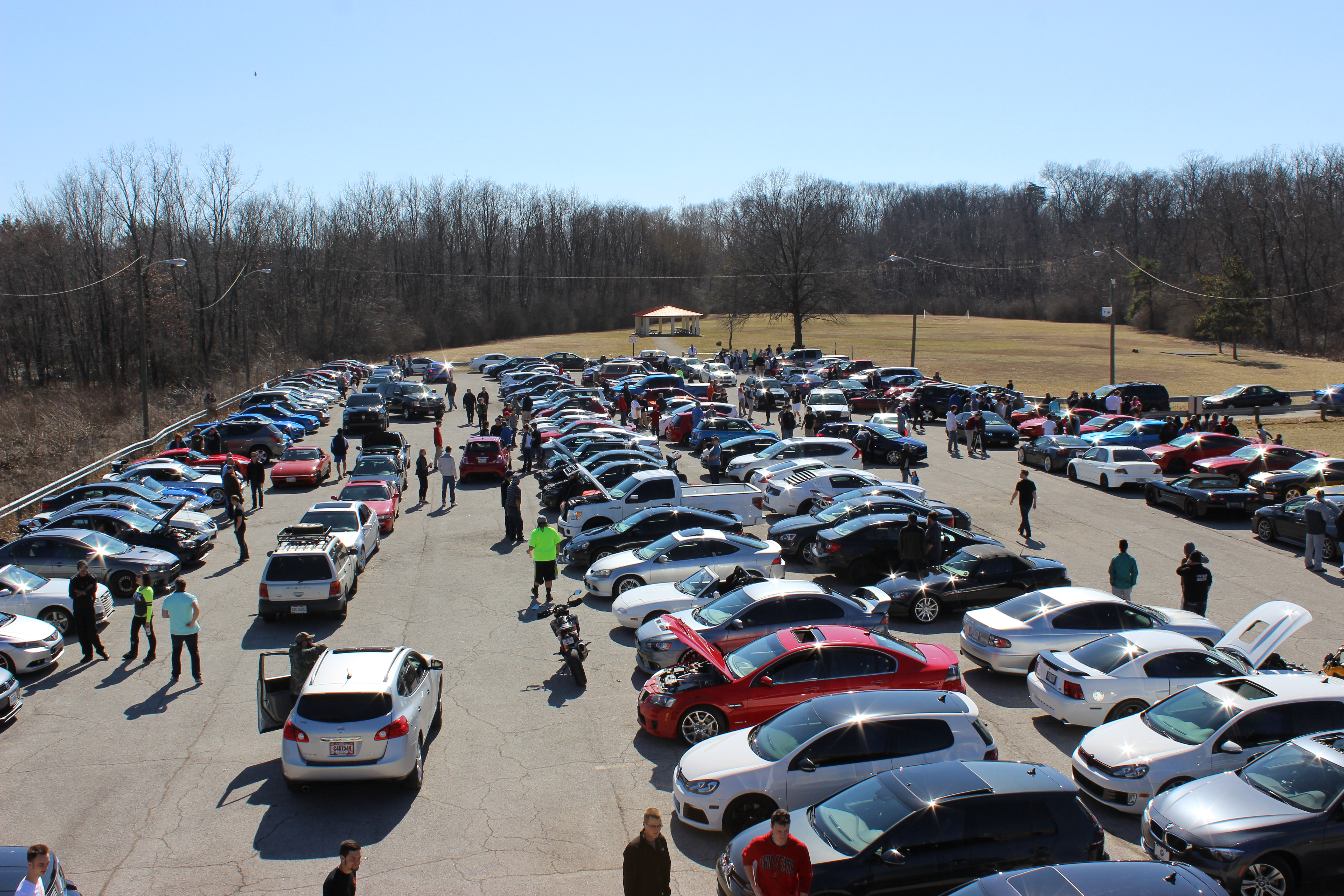 The 'Cars at the Dam' car meetup in the parking lot of Hoover Dam in Blendon Township, Franklin County, Ohio.